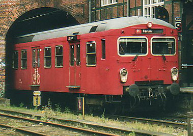 Cropped version of File:DSB S-tog FS 7292 Østerport.jpg: DSB S-tog FS 7292 at the station of Østerport in København, Danmark